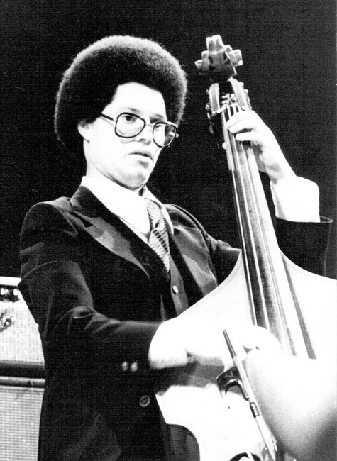 Bass player Phil Bowler in Paris, France